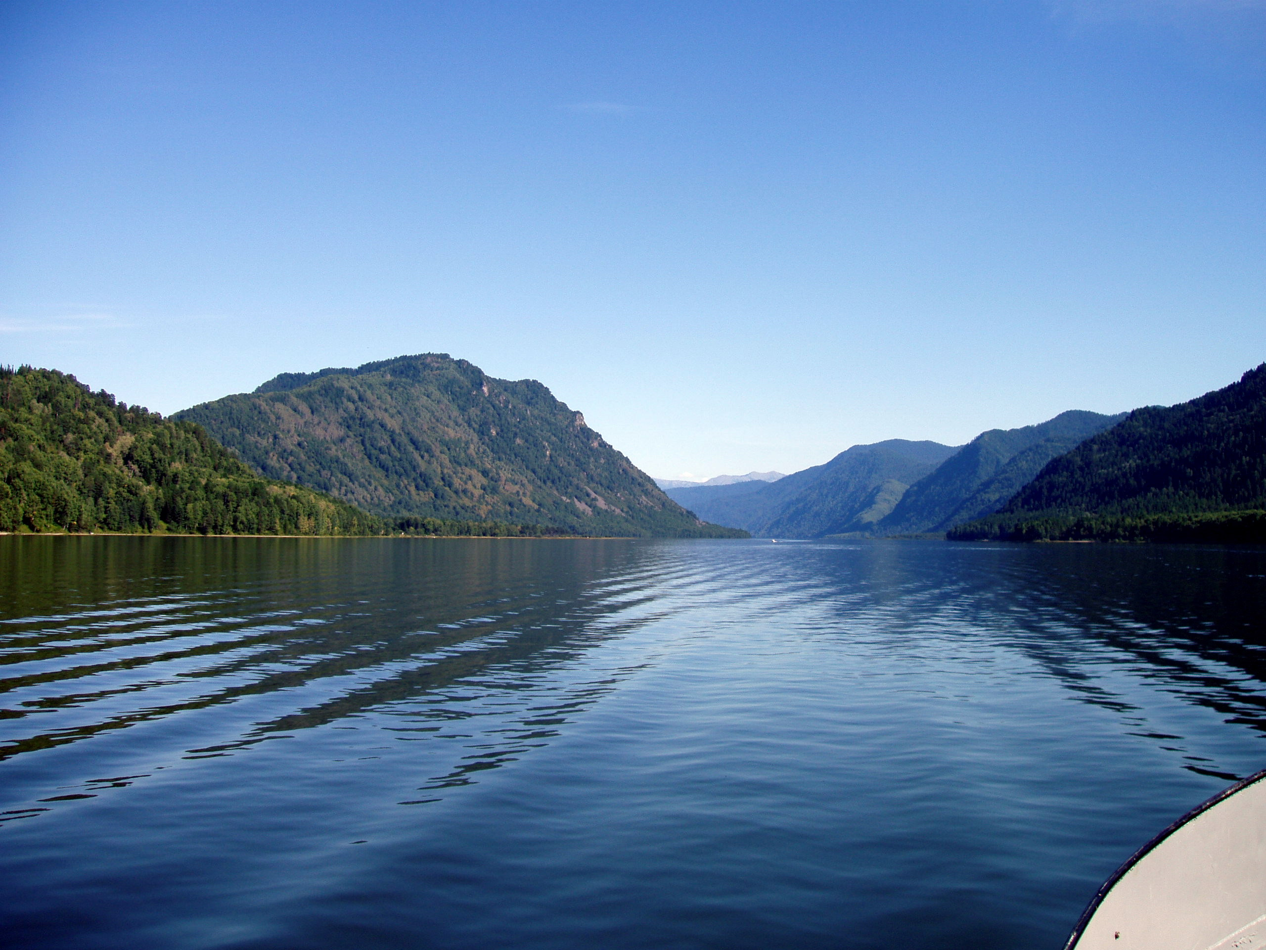 Lake Teletskoye.